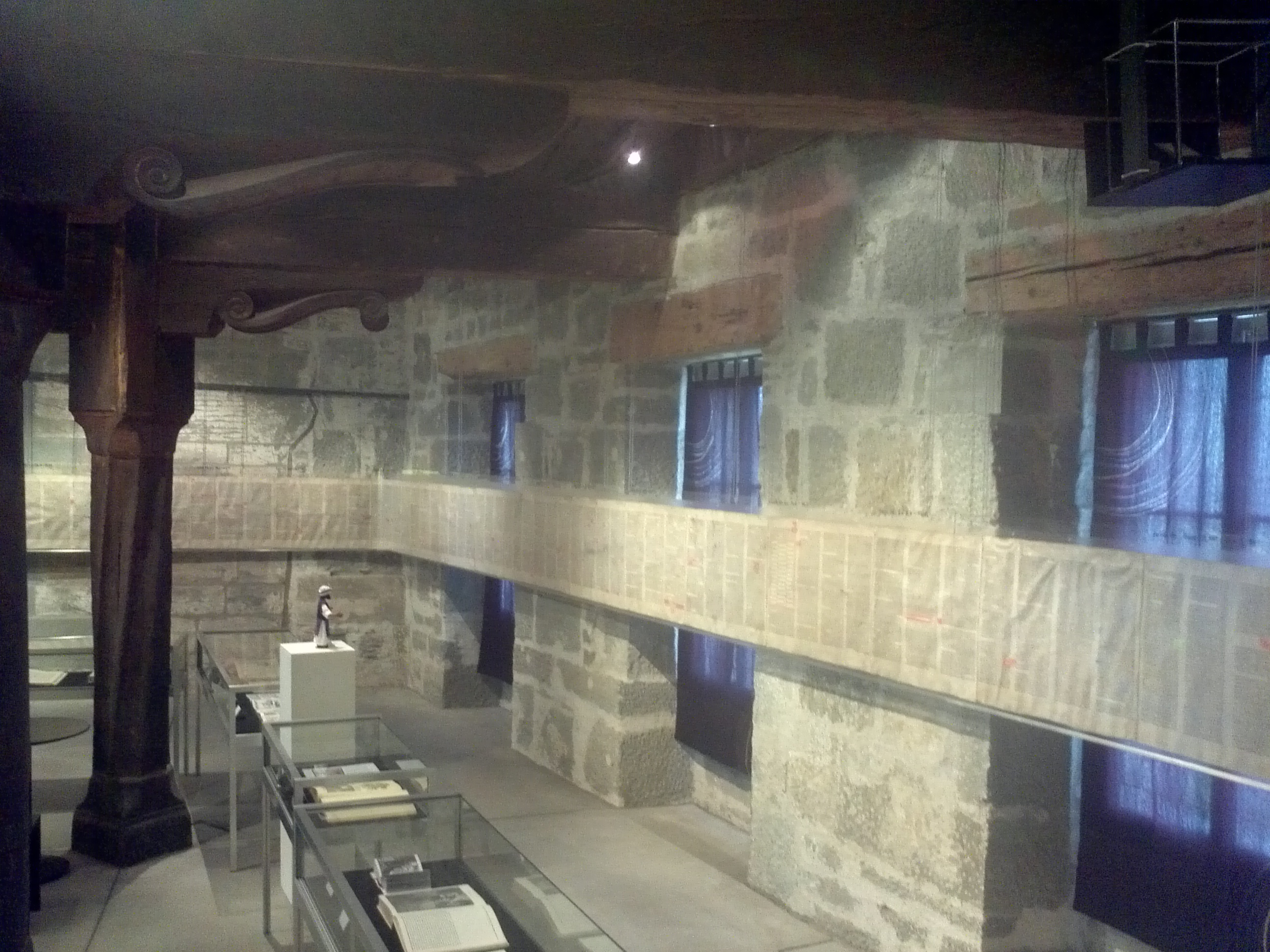 Ceiling beam in Gutenberg Museum, work from Hans Geiler, 16th century